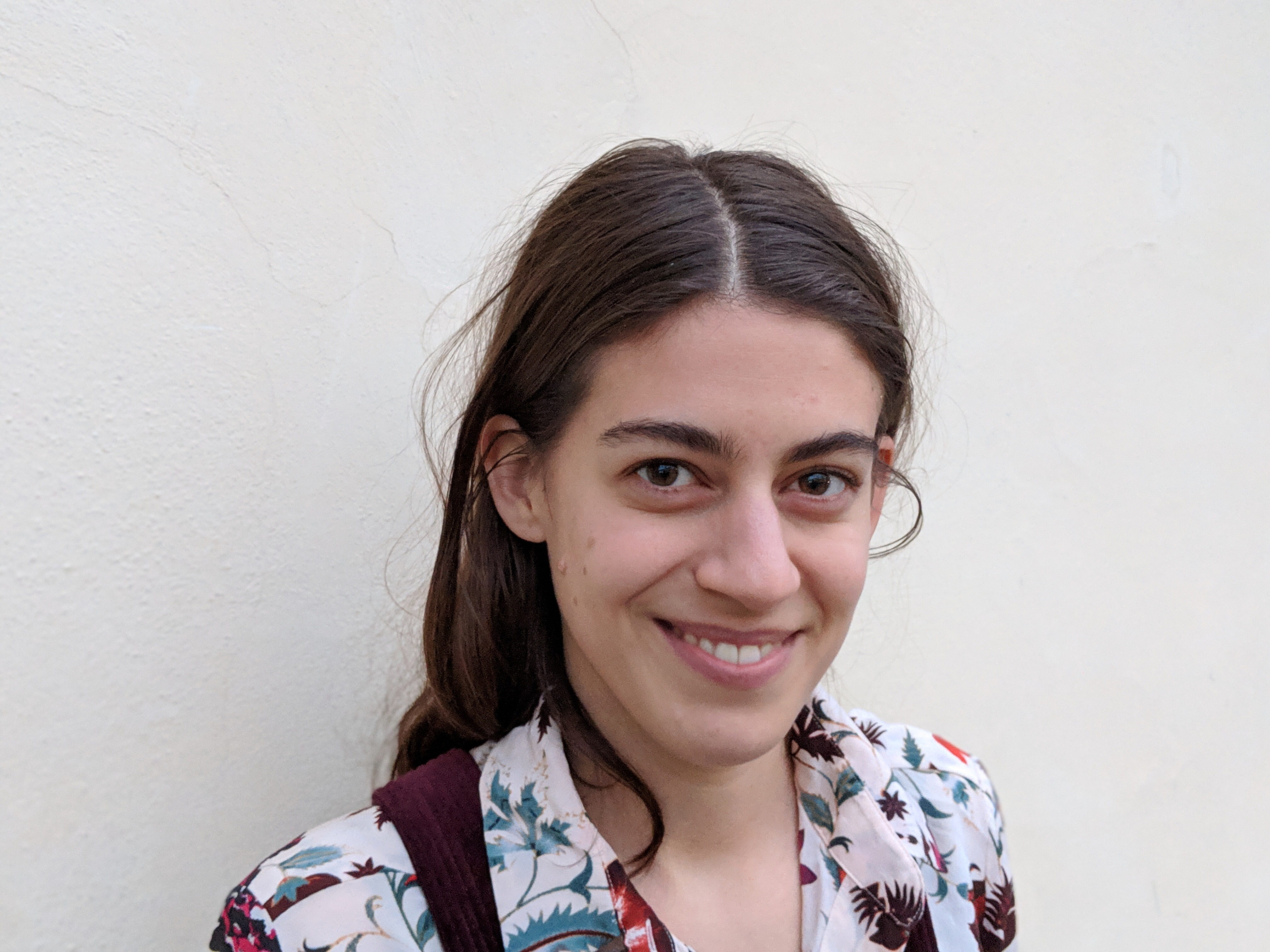 Portrait of Valentina Stadler, German Mezzosoprano, born in Karlsruhe. By Maximilian Schönherr, December 2018